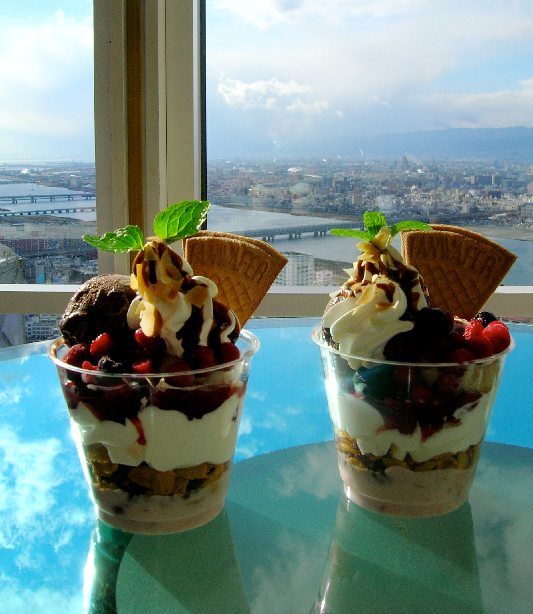 Ice cream sundaes at the top of the Umeda Sky Building.